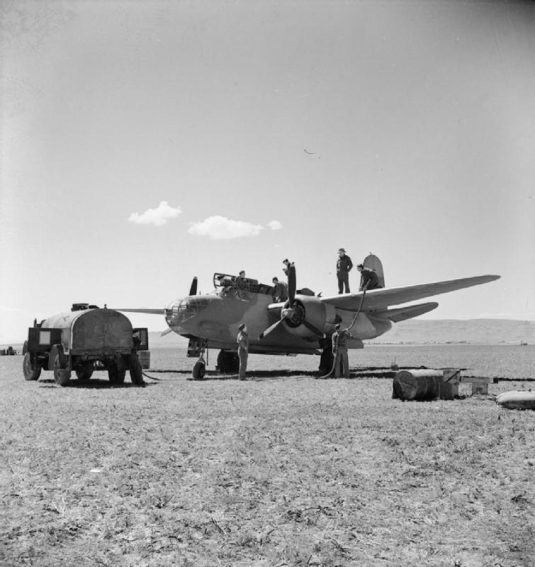 Royal Air Force Operations in the Middle East and North Africa, 1939-1943. Douglas Boston Mark III, AL740, of No. 114 Squadron RAF is refuelled for a further operation at Canrobert, Algeria.